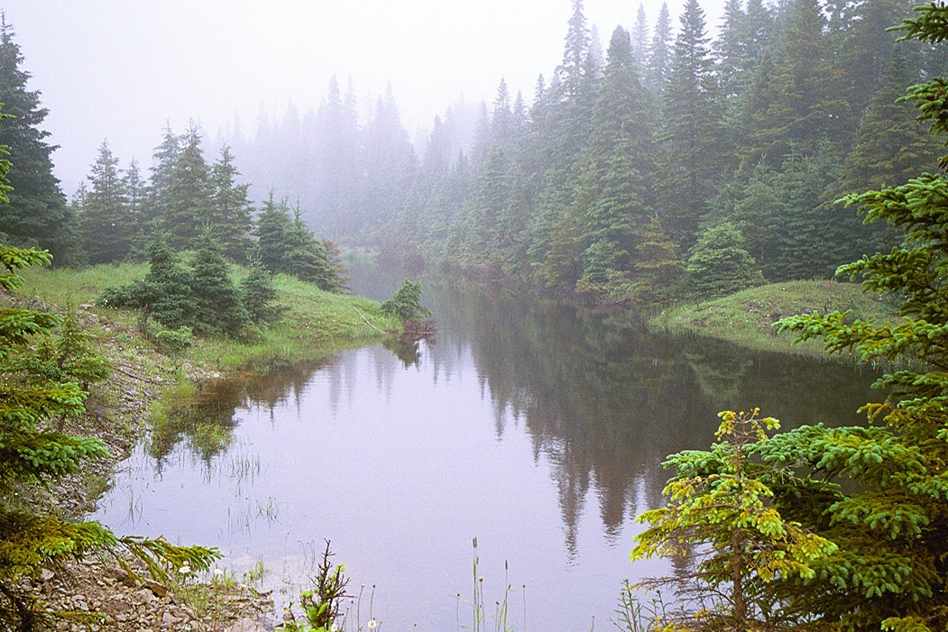 A beaver pond. Anticosti Island, Quebec, Canada. Photo taken in 1999 by R. Rancourt